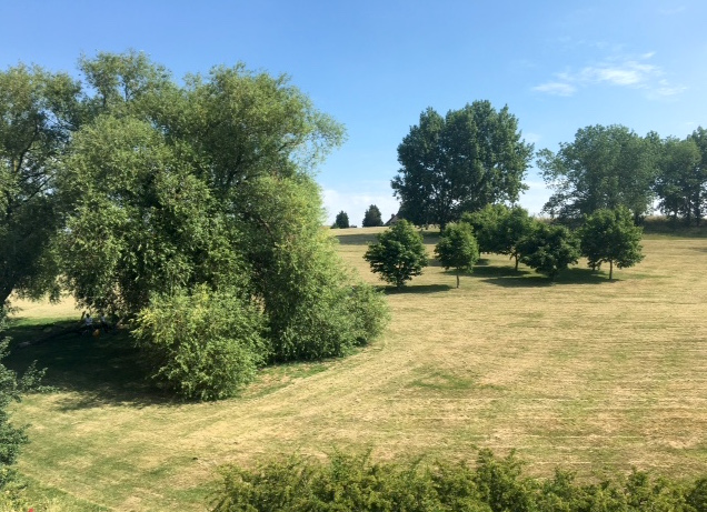 An image of the park known as Downham Fields, in Downham, south-east London